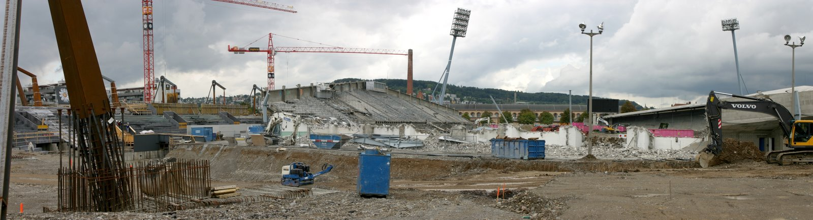 Old Letzigrund during demolition in 2006